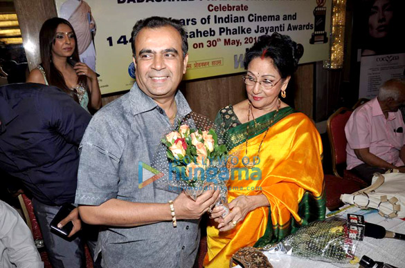 Mala Sinha and Yogesh Lakhani at the press conference of 'Dadasaheb Phalke Jayanti Awards'